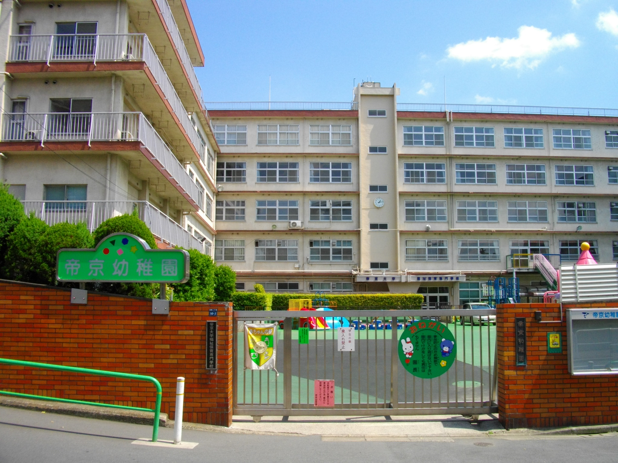 Teikyo University College of Health Welfare & Child Care